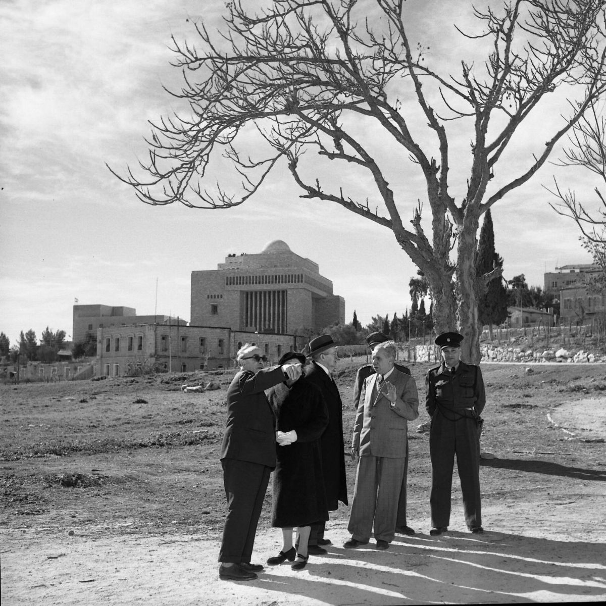 Photograph of Jerusalem mayor Mordechai Ish Shalom, and Yitzhak Ben Tsvi (the president of Israel) standing next to the ruins of redemption hotel (מלון הגאולה) built by Jeanne Merkus, aka "house of the 144.000" after the biblical verse Revelation 7:4 ("And I heard the number of the sealed, 144,000, sealed from every tribe of the sons of Israel:"). In the back can be seen Heichal Shlomo, the seat of the chief rabbinate, which was completed in 1958